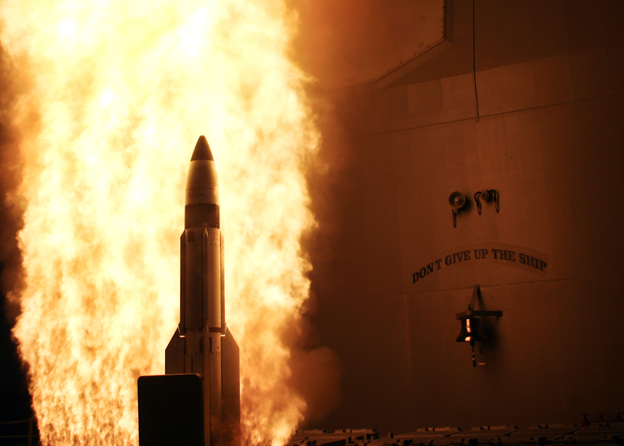 080220-N-XXXXX-025 PACIFIC OCEAN (Feb 20, 2008) At a single modified tactical Standard Missile-3 (SM-3) launches from the U.S. Navy AEGIS cruiser USS Lake Erie (CG 70), successfully impacting a non-functioning National Reconnaissance Office satellite approximately 247 kilometers (133 nautical miles) over the Pacific Ocean, as it traveled in space at more than 17,000 mph.